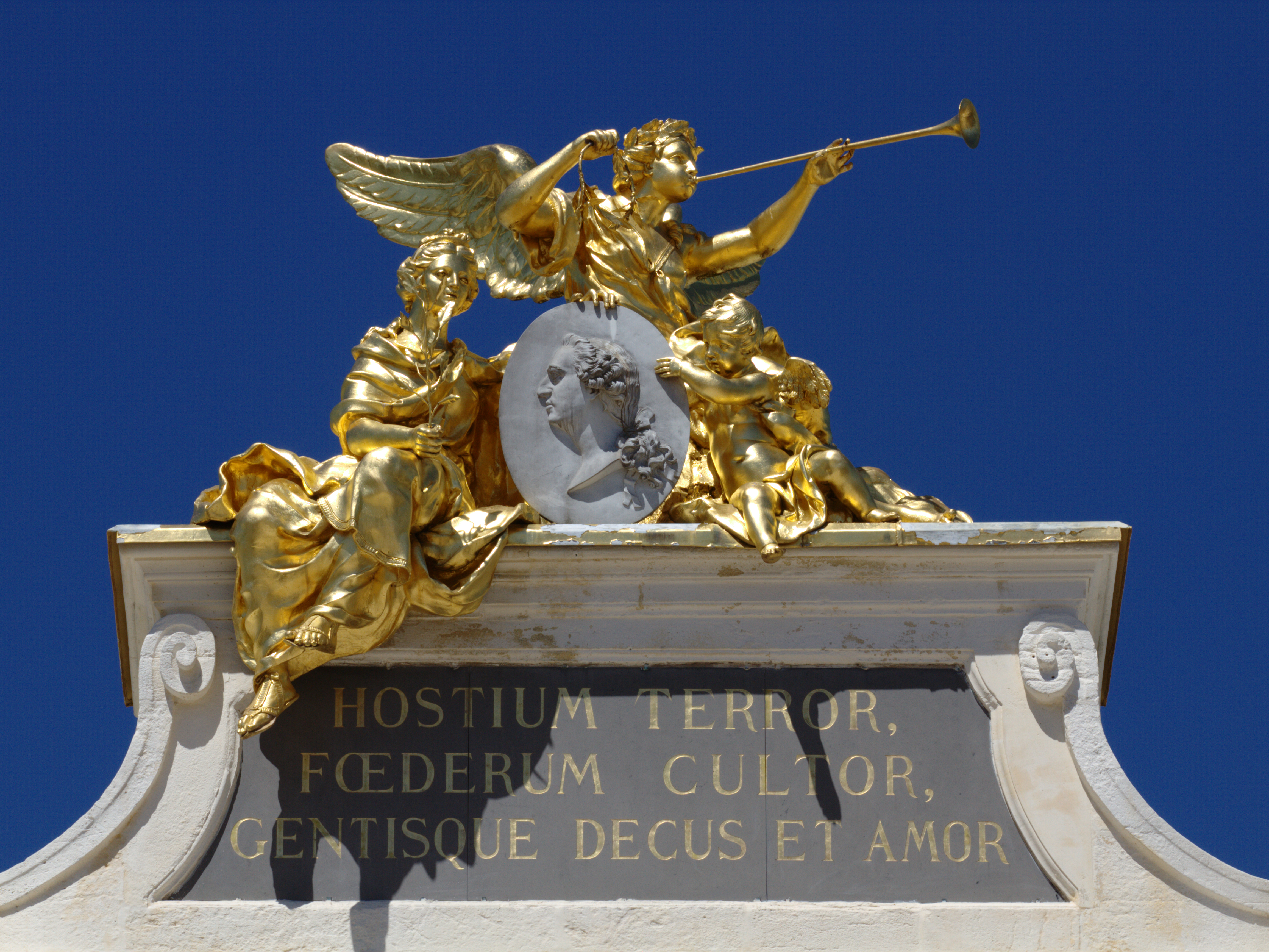 Allegory of Renown on Top of the Triumphal Arch in Nancy.